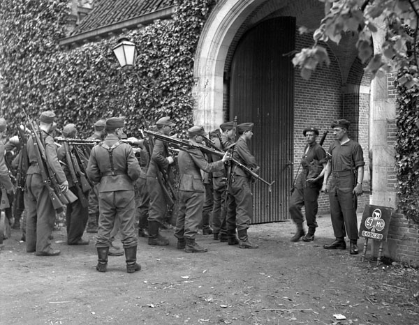 German soldiers entering a concentration area to be disarmed by soldiers of the 1st Canadian Corps, Amsterdam, Netherlands, 9 May 1945. Published in Amsterdam, Netherlands. The sign near the door shows the Polar Bear divisional flash of the British 49th (West Riding) Infantry Division.